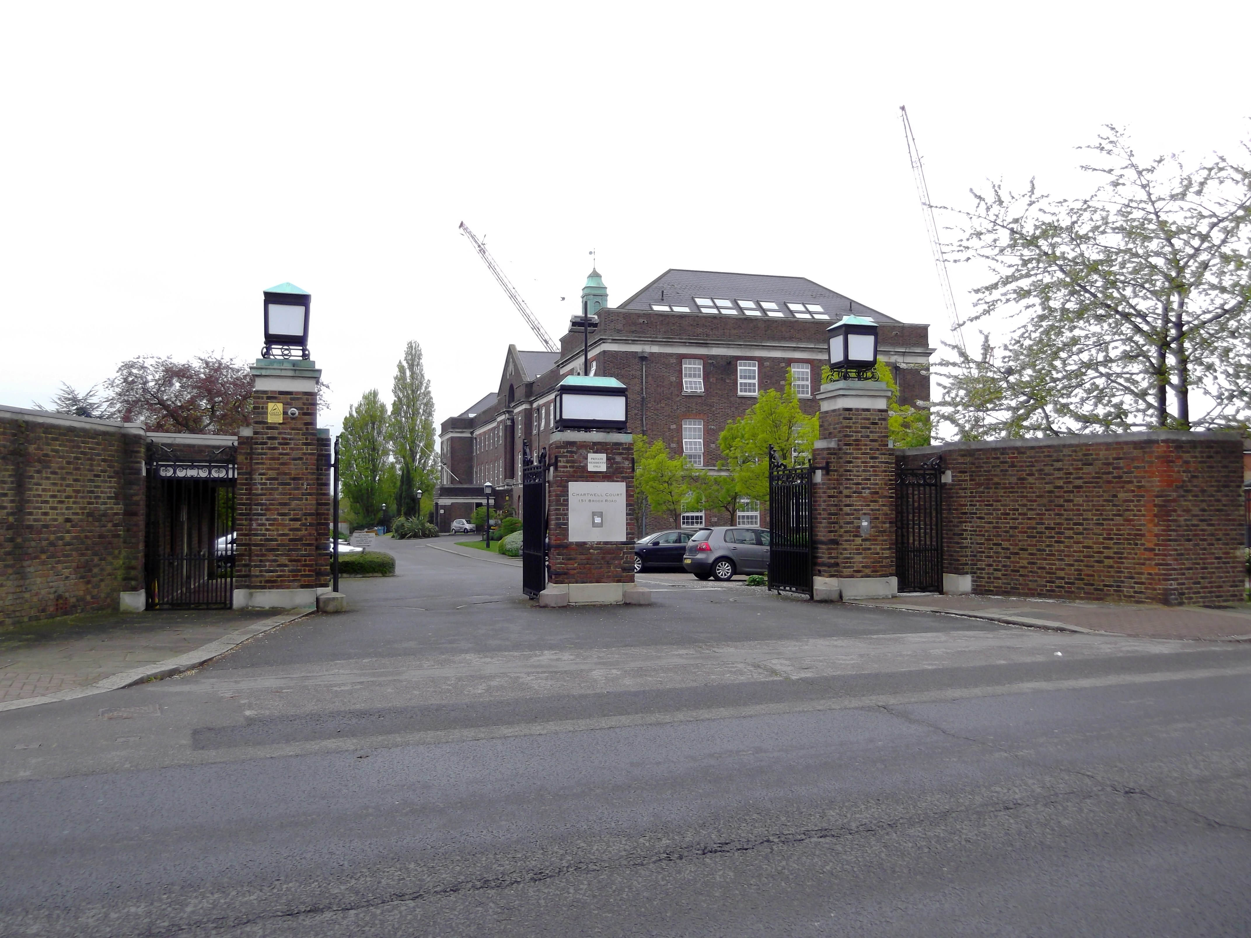 037 Chartwell court Brook road London